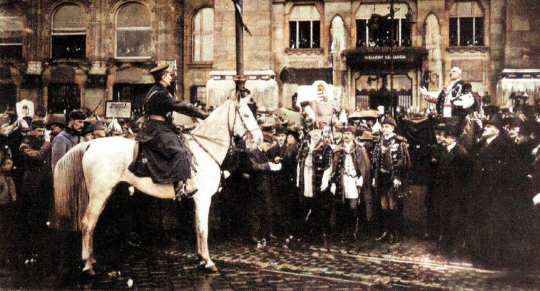 Colorized photo of Hungarian regent Miklos Horthy in Budapest in 1919, in front of hotel Gellért